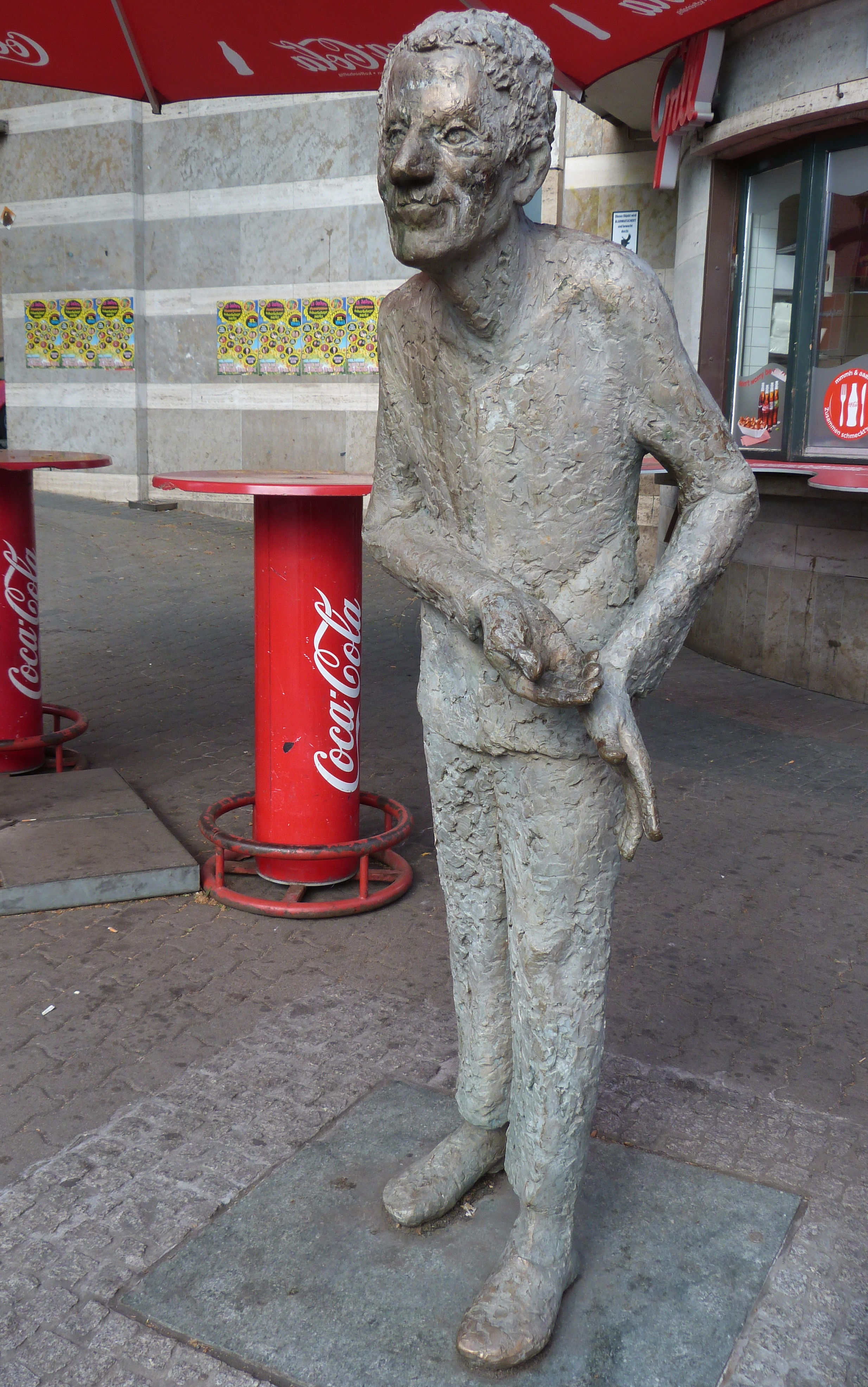 Eine Begegnung mittendrin (A meeting in the middle), sculpture Hans Buchler from Maya Graber, Geiststrasse, Halle (Saale)